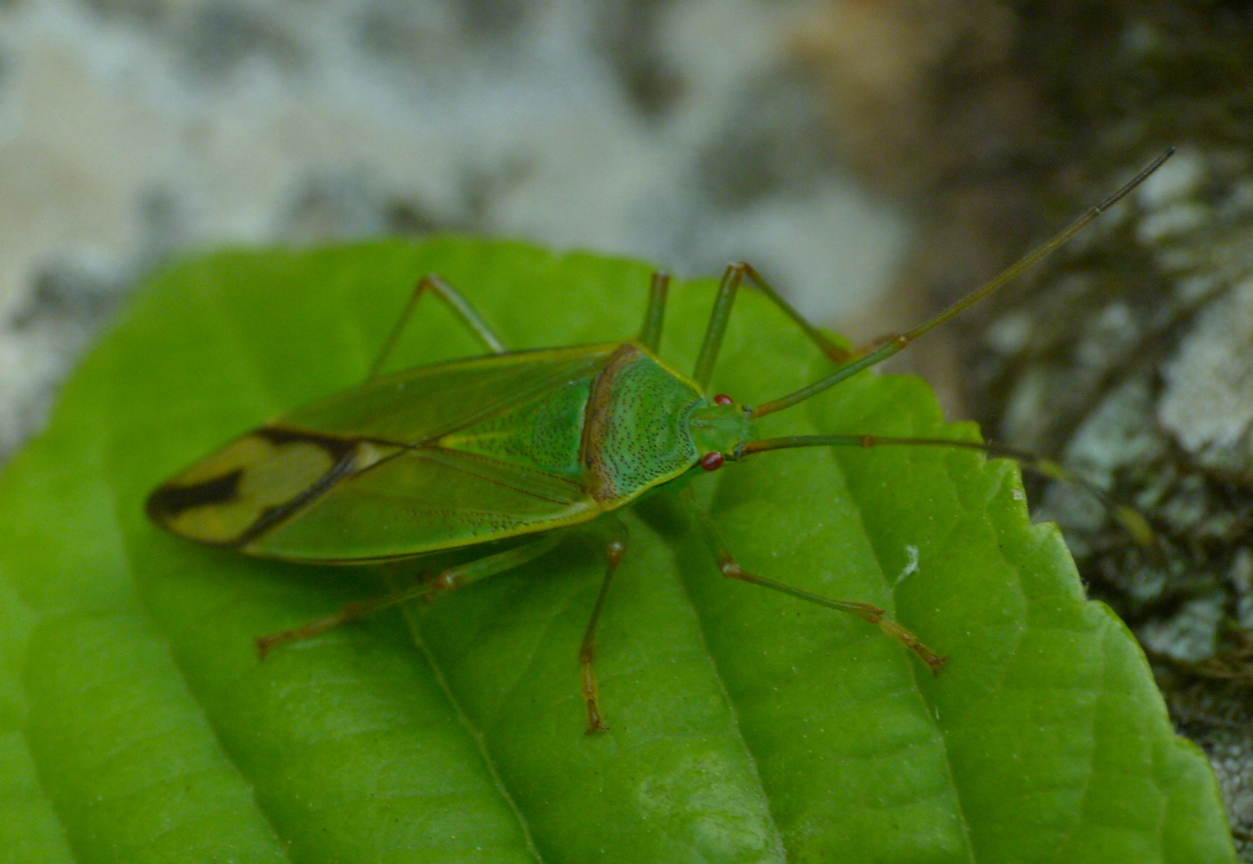 Unidentified Urostylididae, Uttarakhand, India